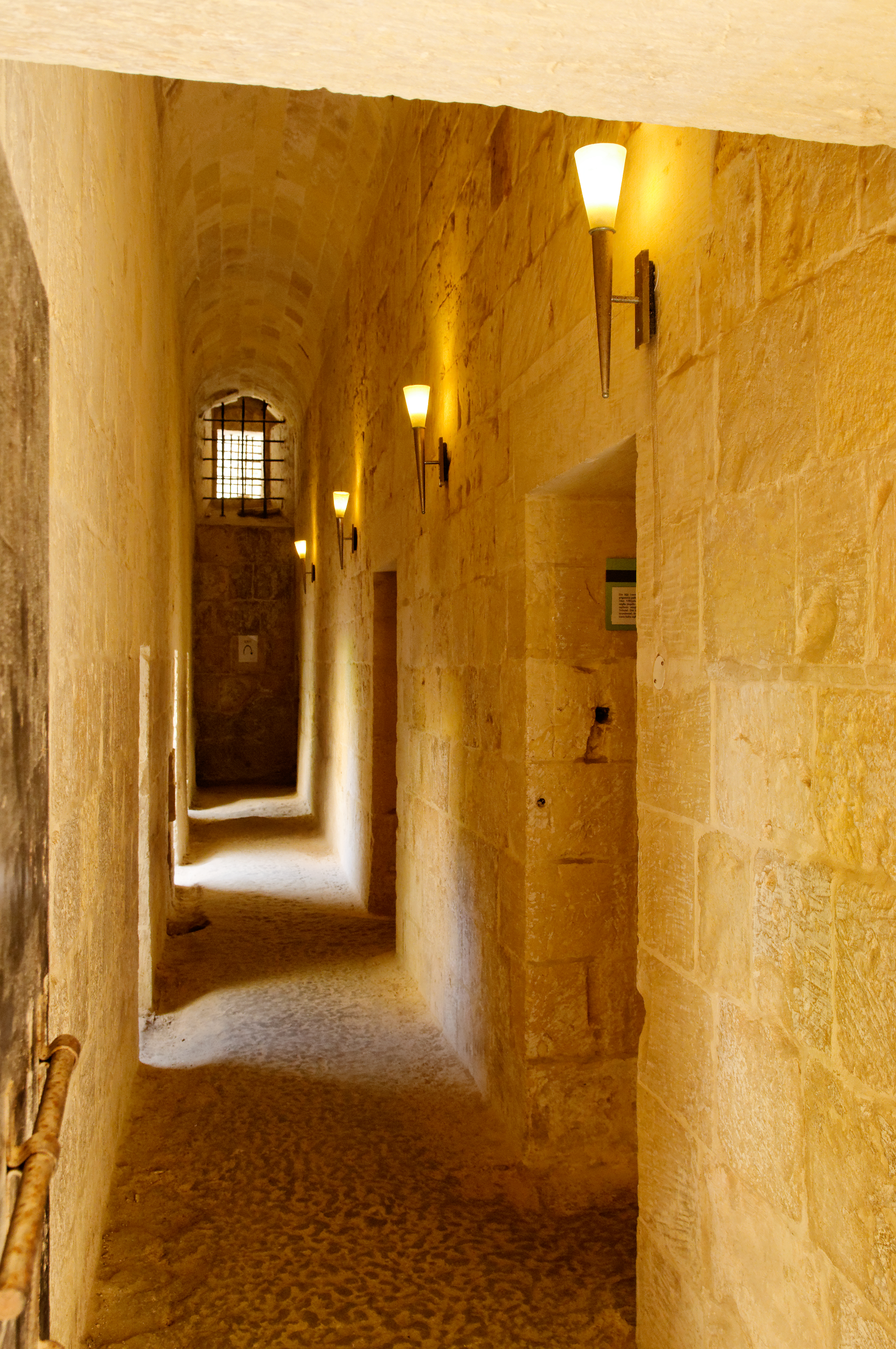 Entrance to one of the ‘secret’ cells, Inquisitor's palace in Vittoriosa (Birgu), Malta.